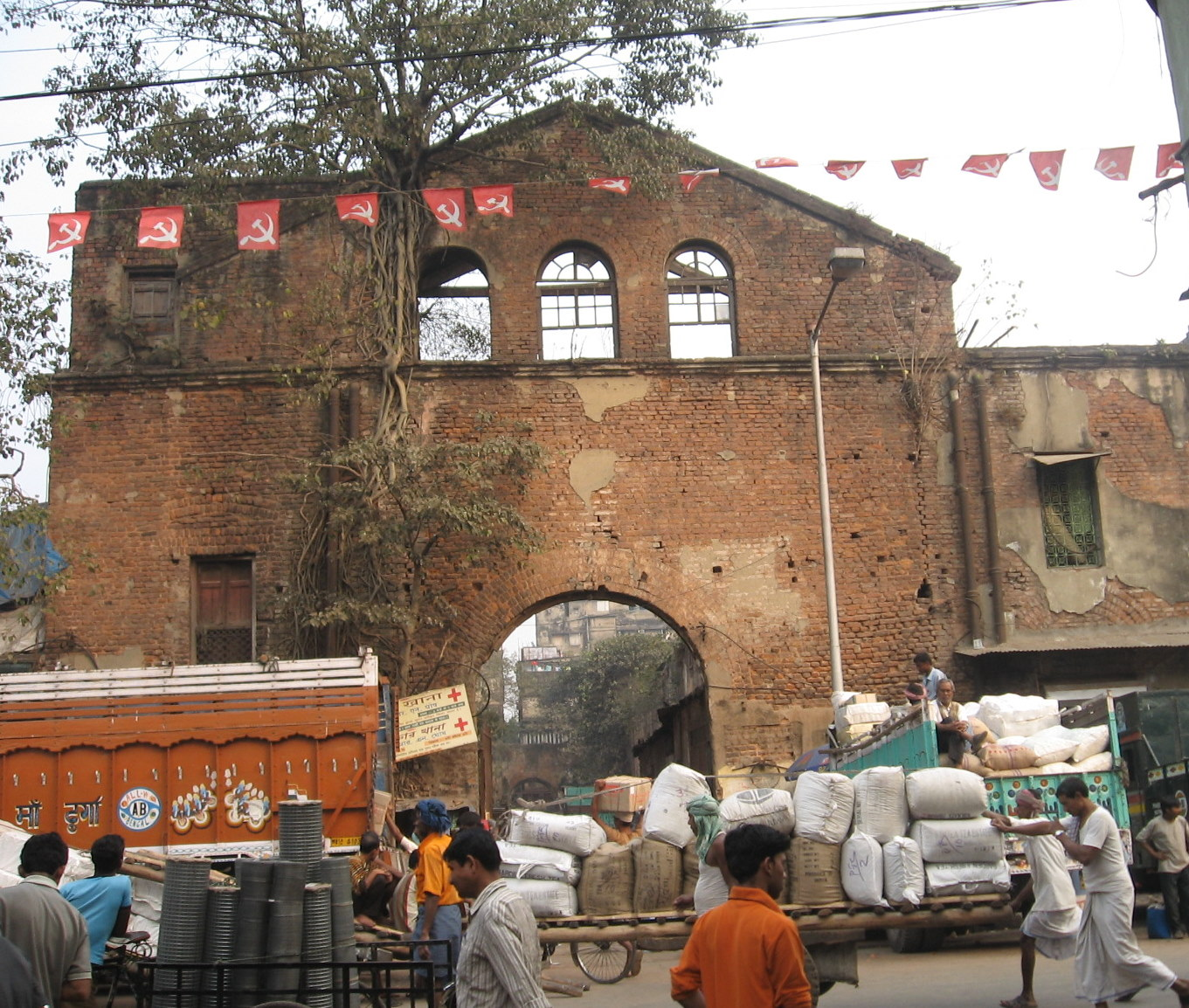 An old house in a dilapidated condition in Posta, Kolkata